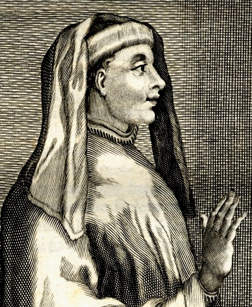 Cropped portrait of Guiniforte Barzizza (Pavia, 1406 - Milan, 1463), Italian humanist scholar and teacher of Galeazzo Maria and Ippolita Maria Sforza. An earlier version of this engraving was published in Scena letteraria de gli scrittori bergamaschi in 1664. This reversed copy was made for the 1723 Gasparini Barzizii Bergomatis Et Guiniforti Filii Opera, and a copy was made in 1783 by Vincenzo Angelo Orelli, in oil on canvas.